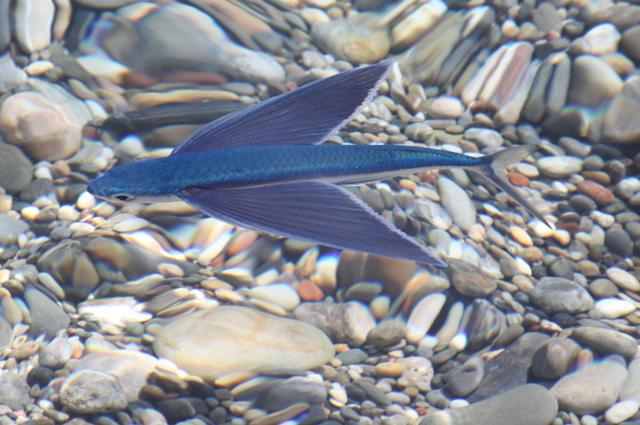 swallow fish